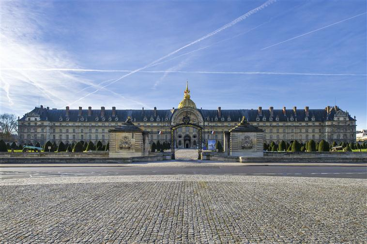 Façade de l'Hôtel des Invalides